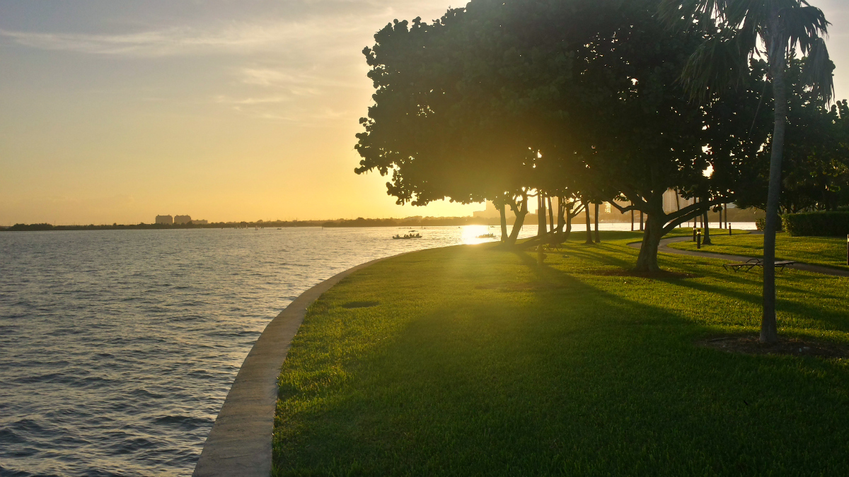 Looking south on Biscayne Bay from Grove Isle's gardens. Grove Isle is a 20-acre man made island lying off the North East coast of Miami's Coconut Grove neighbourhood.